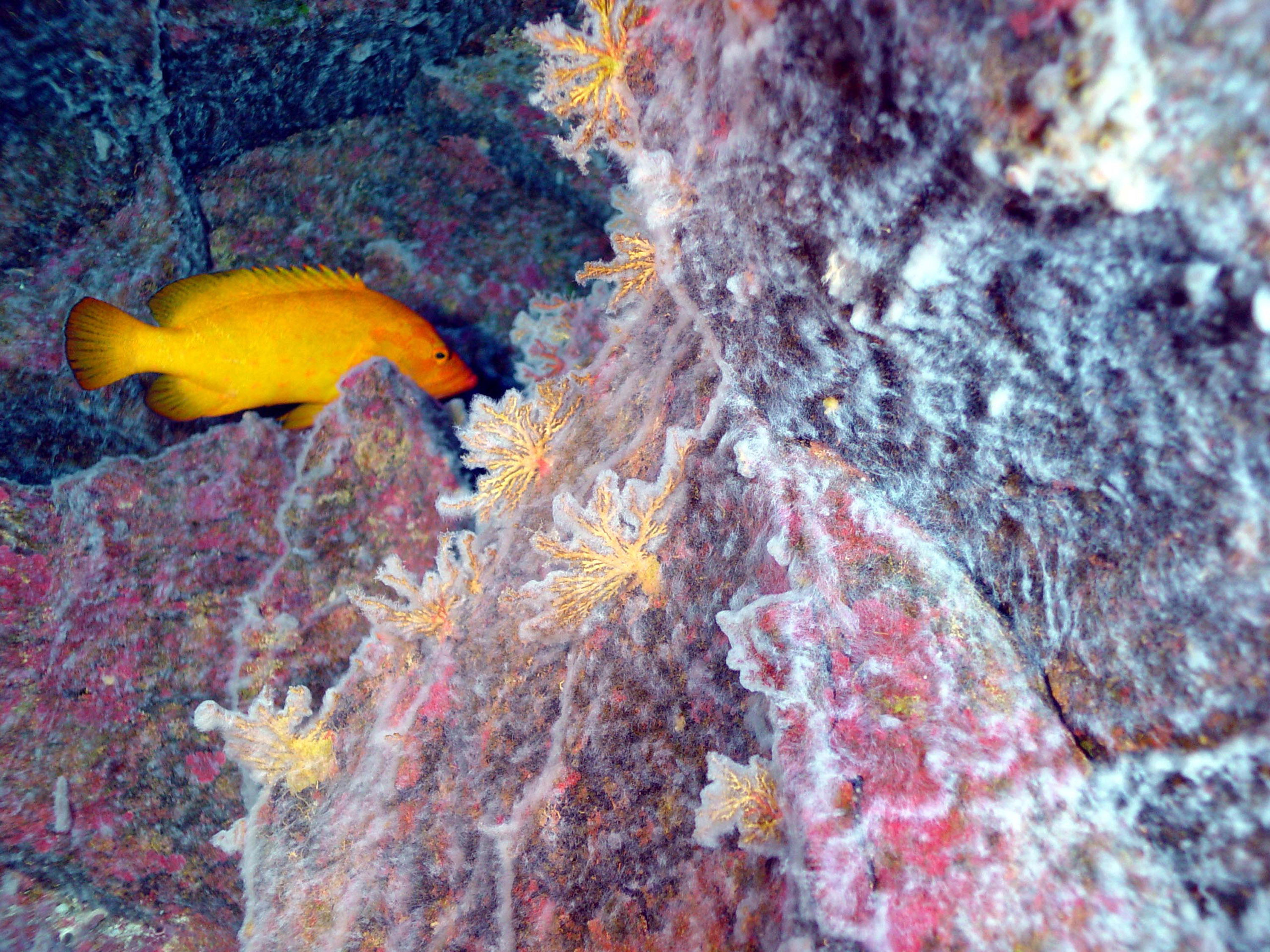 Chemosynthetic microbial mats cover red algae and coral, which are photosynthetic. Hydrothermal vent and coral reef communities are overlapping here at 190 m depth, something none of the scientists on the Submarine Ring of Fire Expedition have witnessed before.